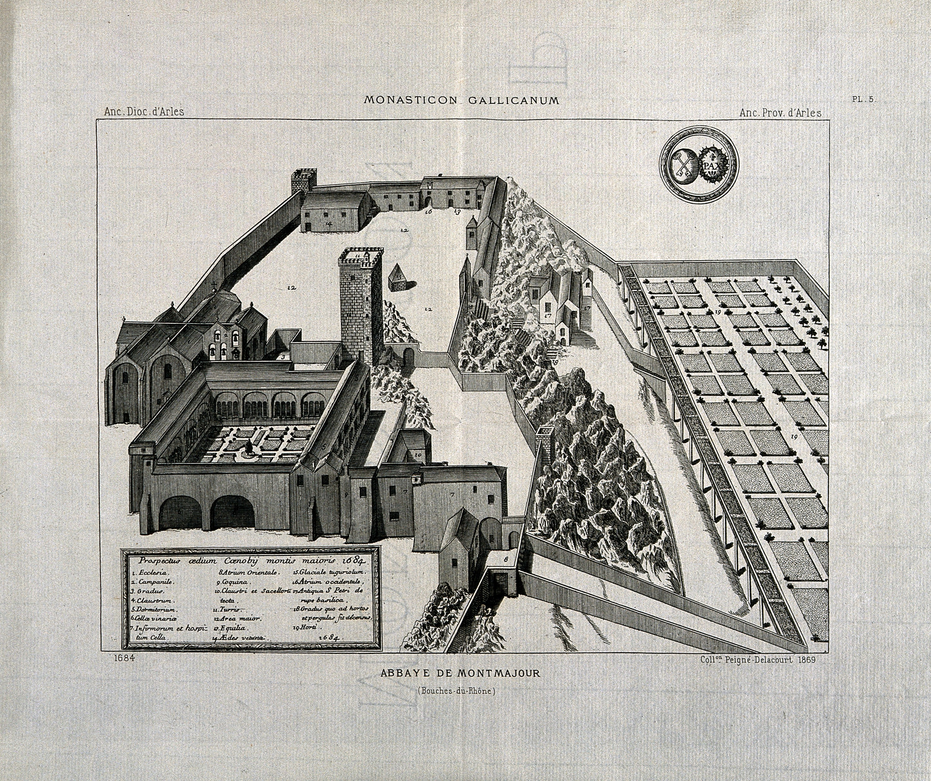 Bird's-eye view of the Abbaye de Montmajour with a key to identify the buildings and grounds. Engraving, 1869 after the original, 1684. Iconographic Collections Keywords: Abbaye de Montmajour (Bouches-du-Rhône, France)